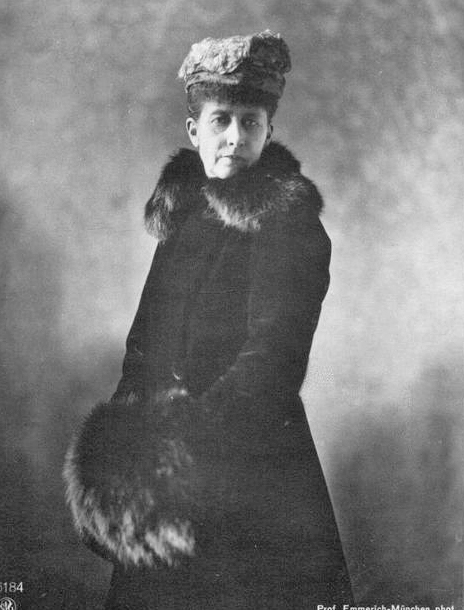 Charlotte, Duchess of Saxe-Meiningen